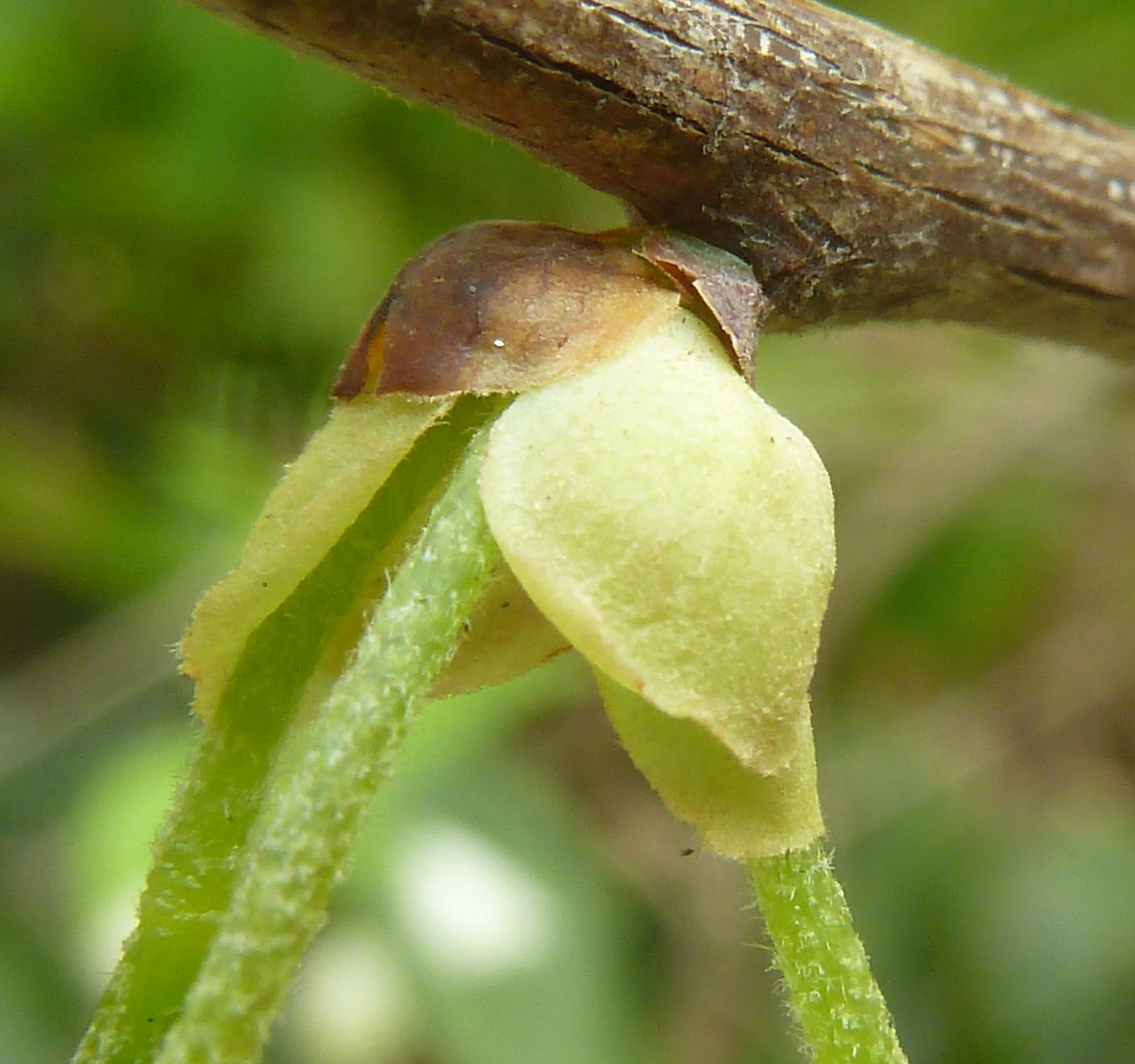 The bud scales (brown and pale green) that protect a growth tip of a Little silverbell in the Manie van der Schijff Botanical Garden, Pretoria. The flowers are produced on twigs which already existed in a previous growth season. The bud scales are produced at the end of the growth season and protect the growth tips against winter cold and unfavourable circumstances. They are not to be confused with bracts that are found under a flower in an inflorescence.